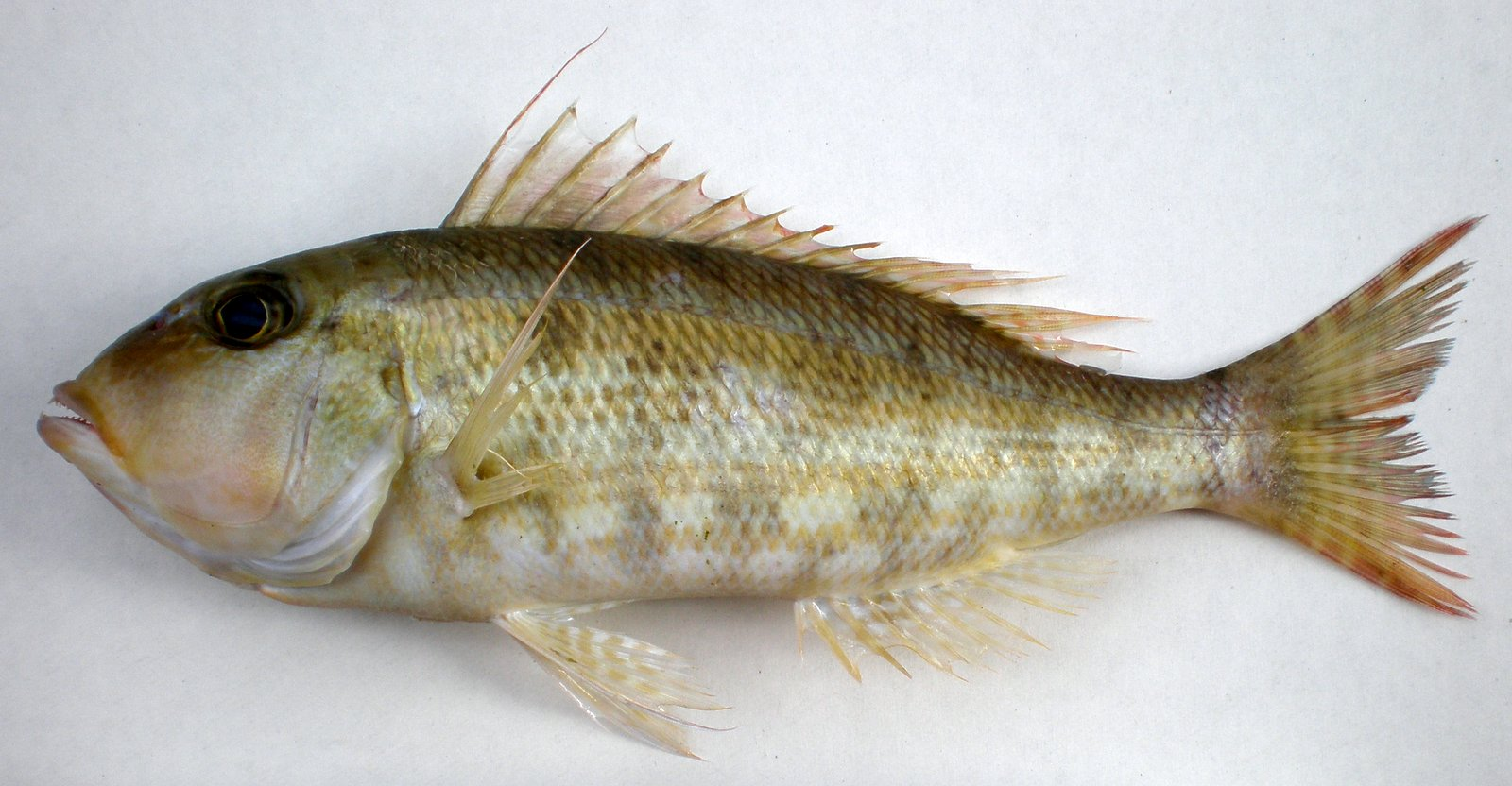 Lethrinus genivittatus Valenciennes, 1830 from off New Caledonia. MNHN Parasitological number JNC2640. Collected off Pointe Bovis, near Nouméa, New Caledonia, 23 September 2008. Fork Length 205 mm, Weight 145 g.